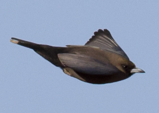 Dusky woodswallow taken about 50m out. the Americans did not invent stealth bombers!! Extreme crop from the 1dx